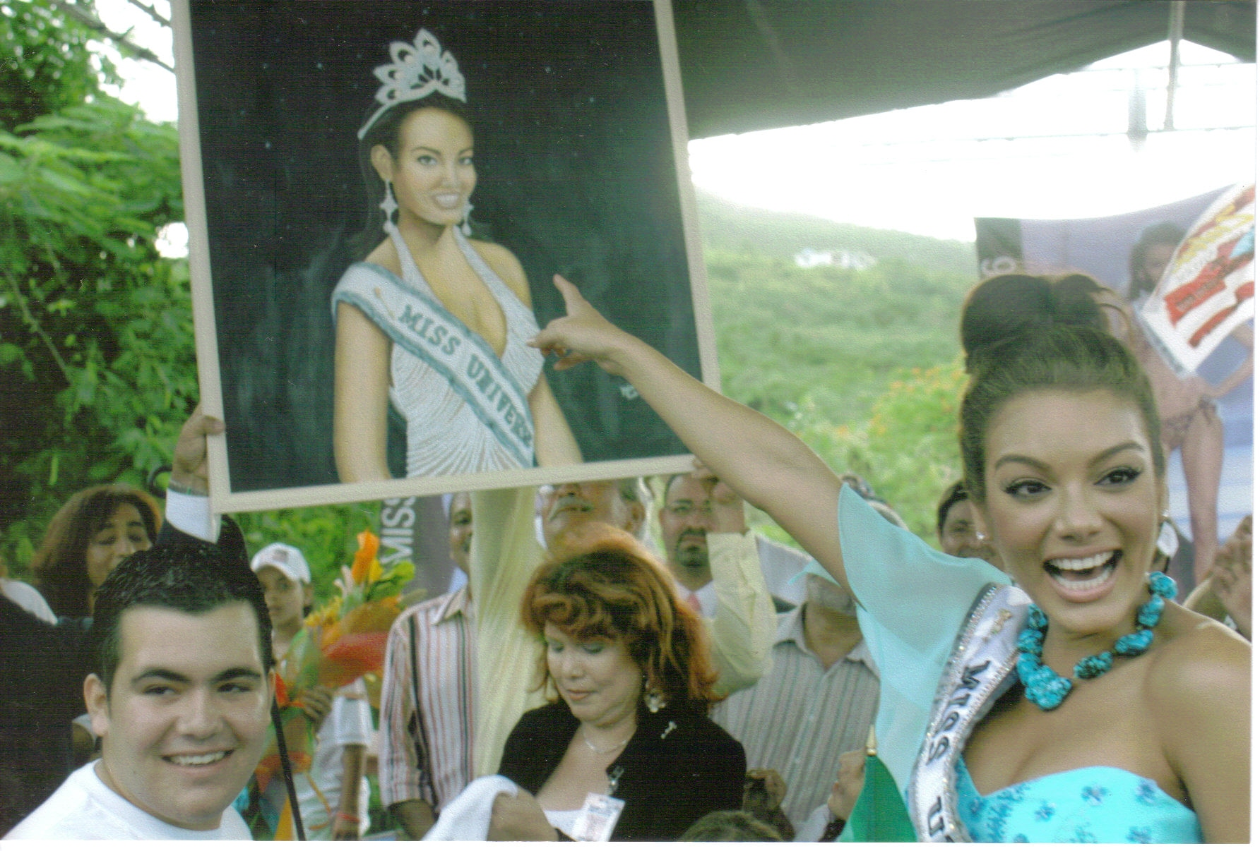 Painter Melvin Rodríguez Rodríguez gives Zuleyka the portrait "The New Star of the Universe". Zuleyka Rivera surprised after seeing her portrait. "You always had the crown that make you queen, that are you humbleness, your happiness, your simpathy and your simplicity, Viva Zuleyka" was the message the painter told her.